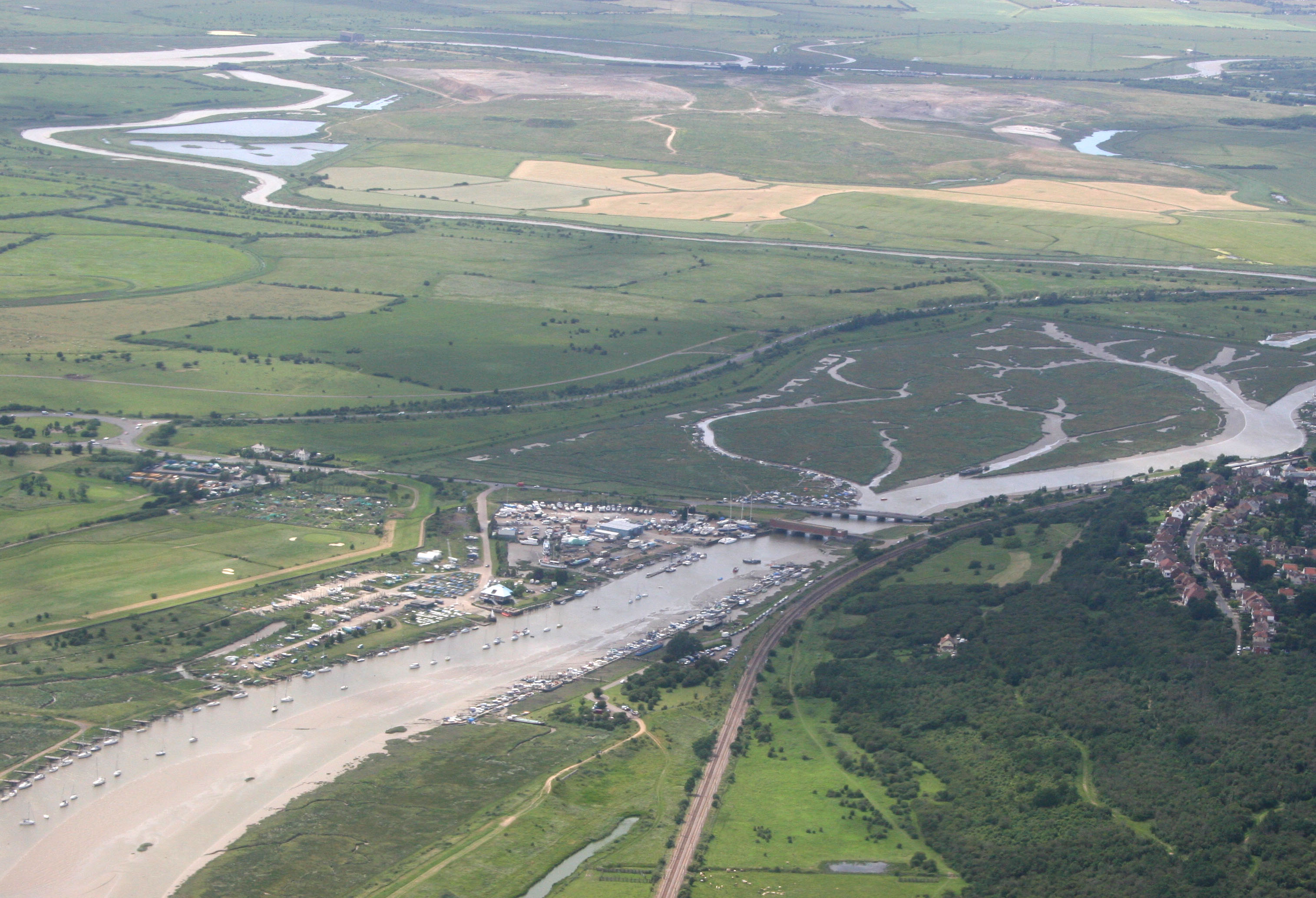 aerial view of the road onto Canvey Island and Benfleet Creek